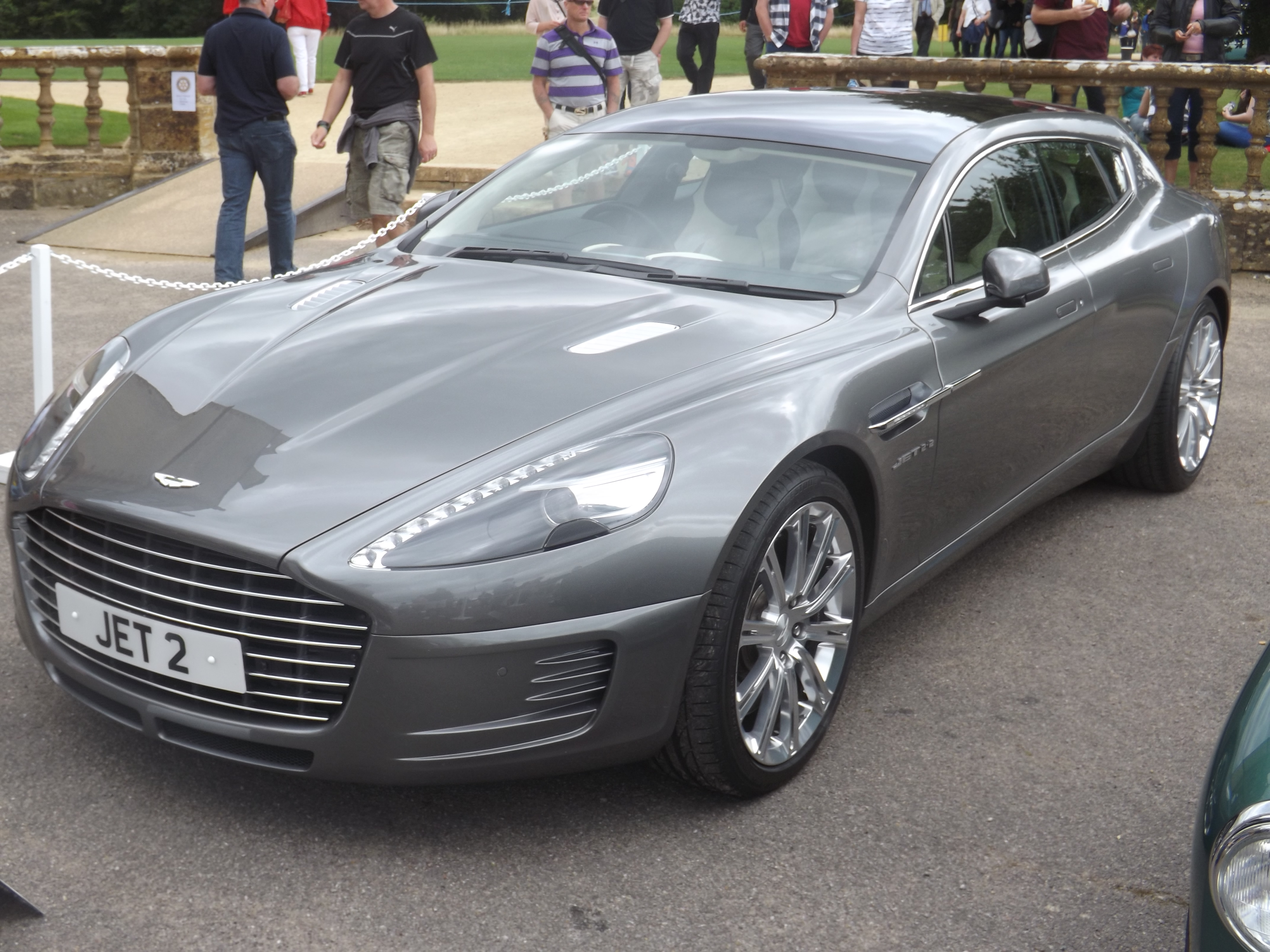 Classics at the Castle, Sherborne, Sunday 19th July 2015